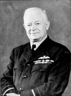 AWM caption : "London, England. 1943-08-27. Air Vice Marshal S. J. Goble CBE DSO DSC, the RAAF Liaison Officer to Canada, at RAAF Overseas Headquarters while on a visit to the United Kingdom".